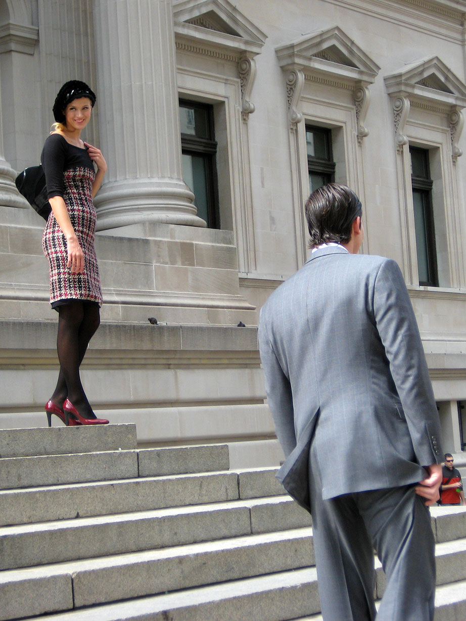 A model poses for a photographer (out of shot) on the steps of the Met, while a bodyguard keeps the crowds away from her.